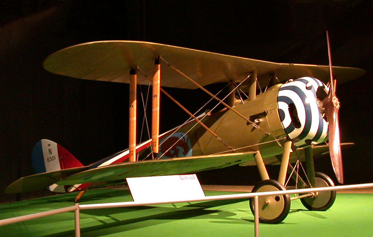 Nieuport N-28C-1, USAF Museum, Ohio